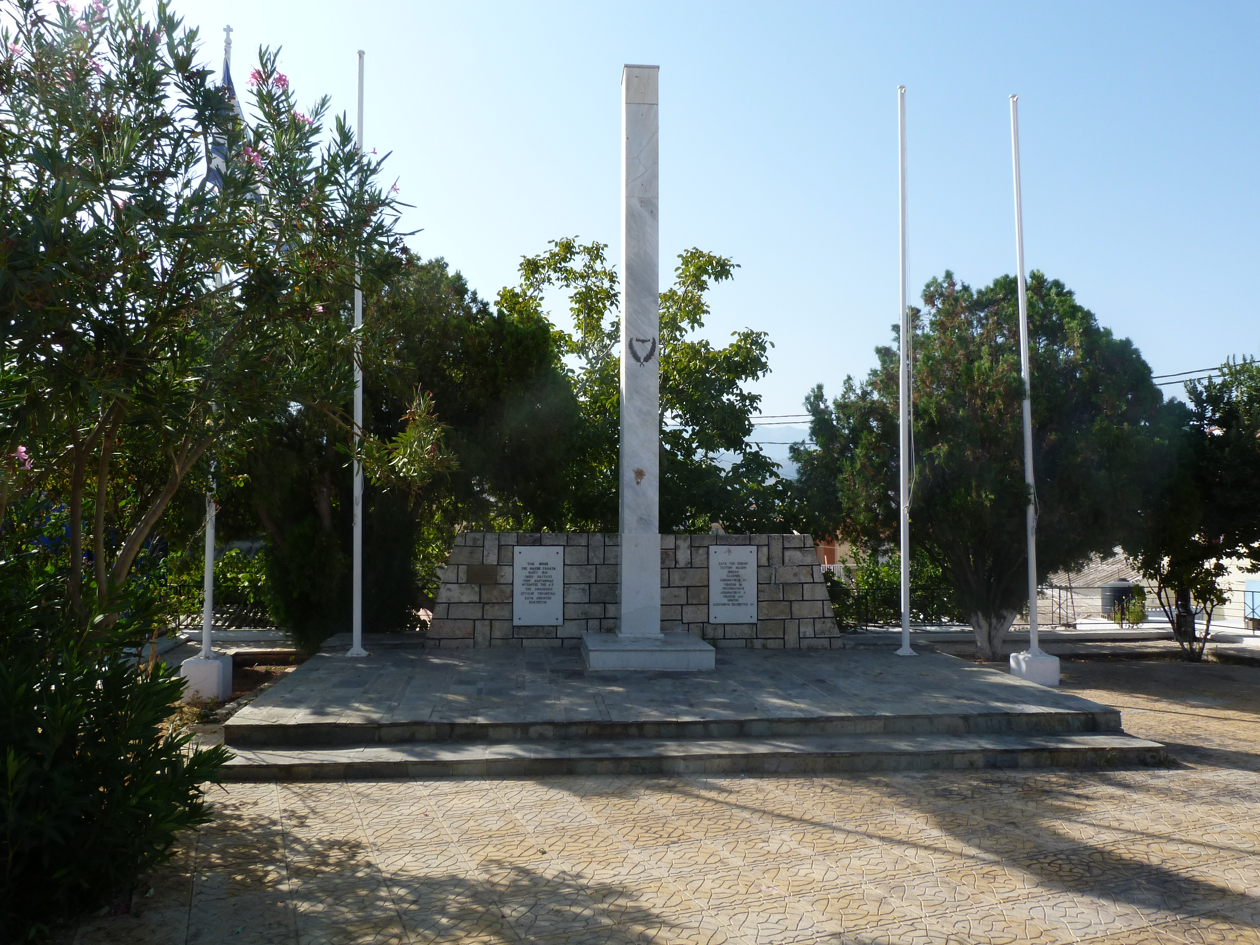 War memorial to the soldiers who died in the Battle of Galatas in 1941